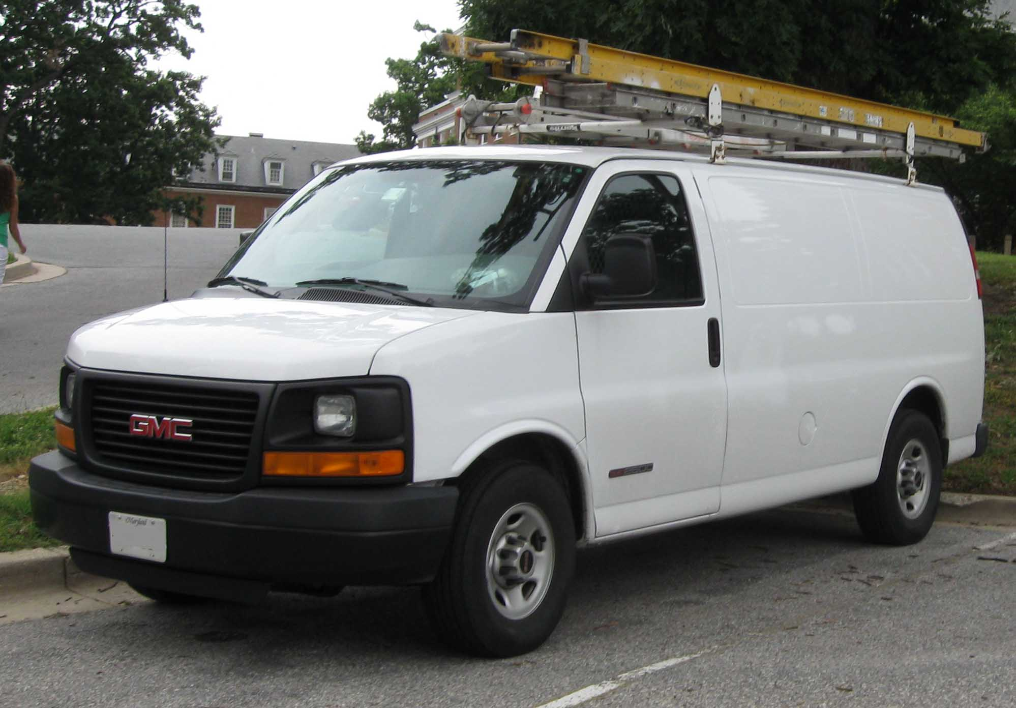 2003-2008 GMC Savana photographed in College Park, Maryland, USA.